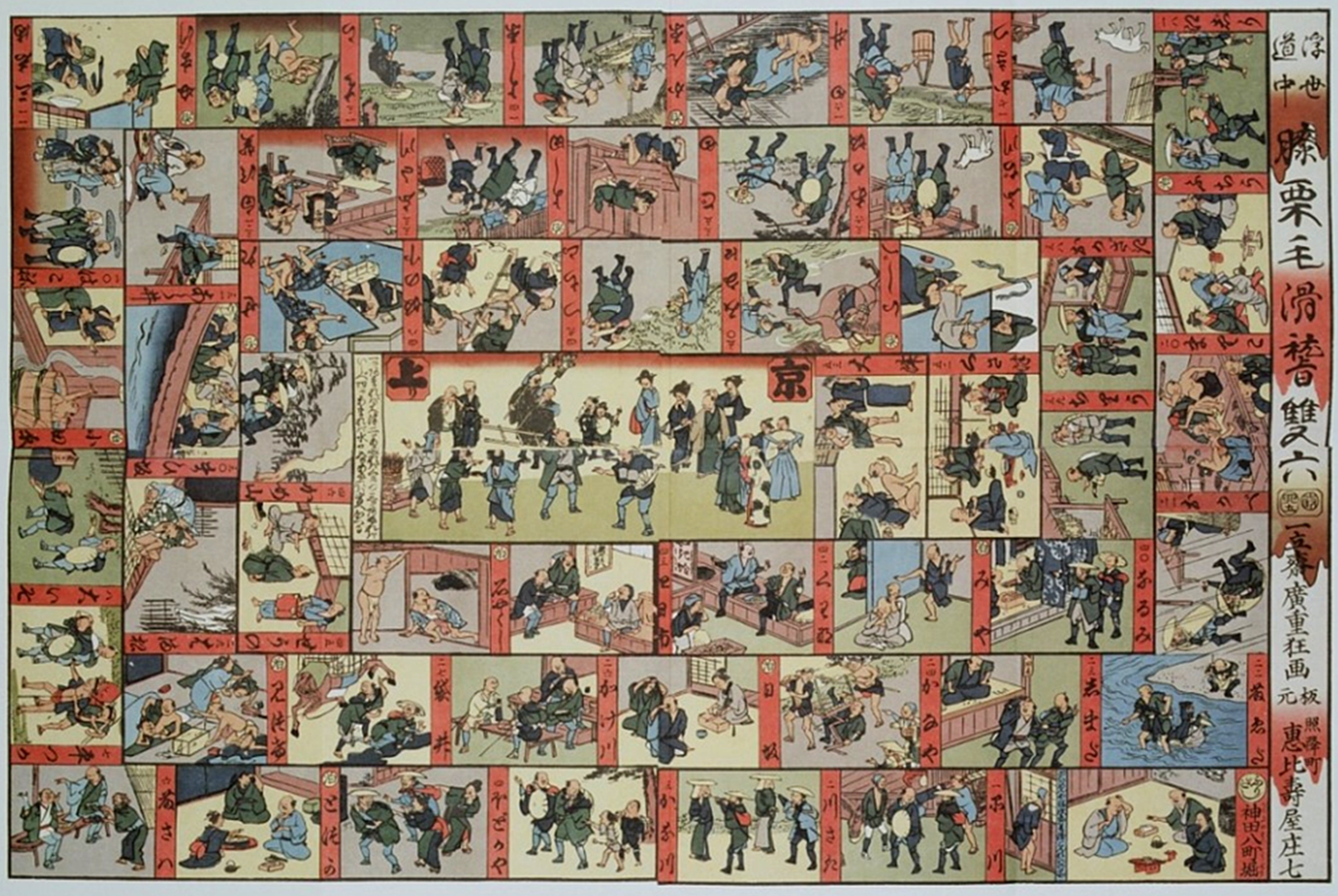 Sugoroku Hiza kurige plan